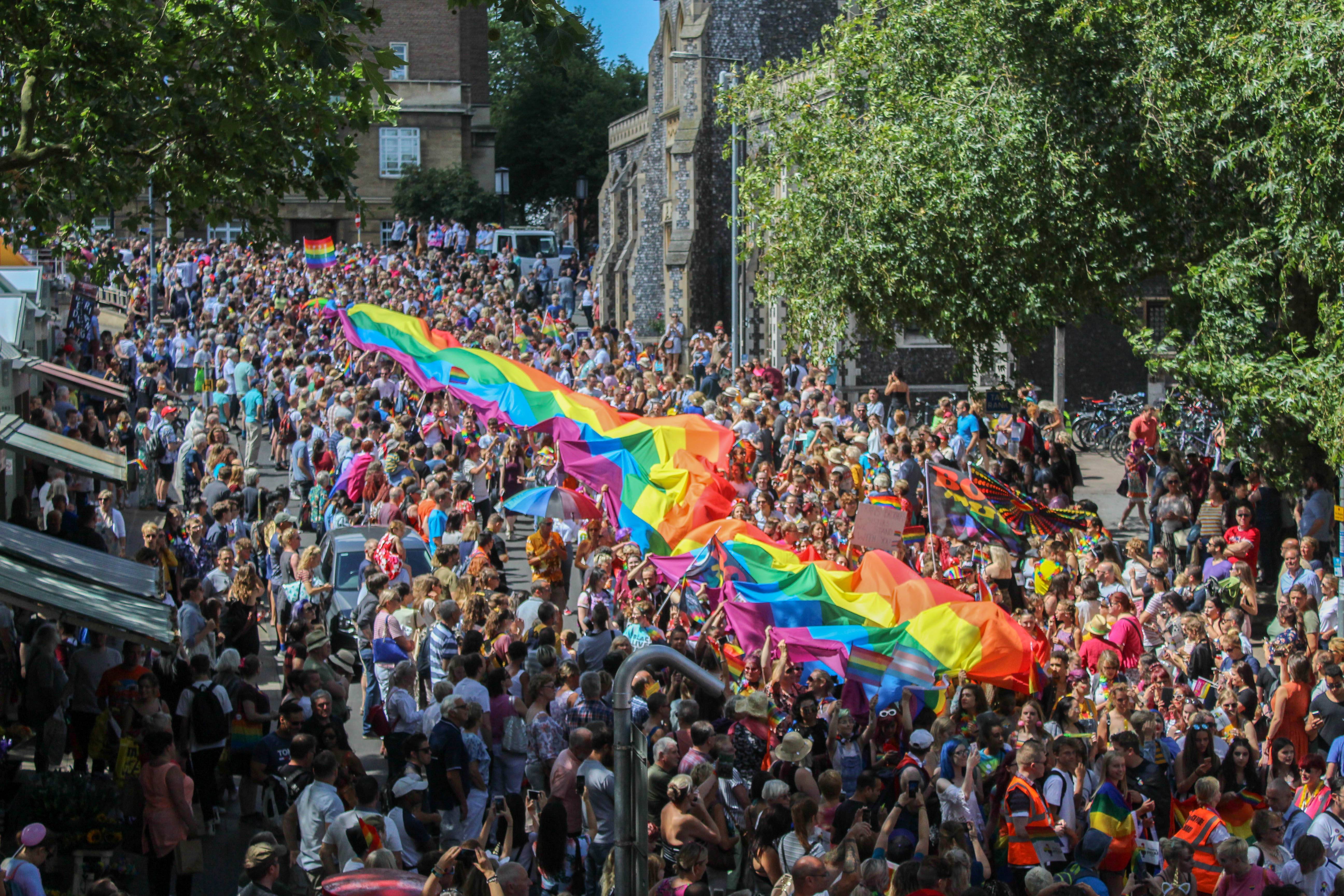 Credit: Roo Pitt, Concrete.